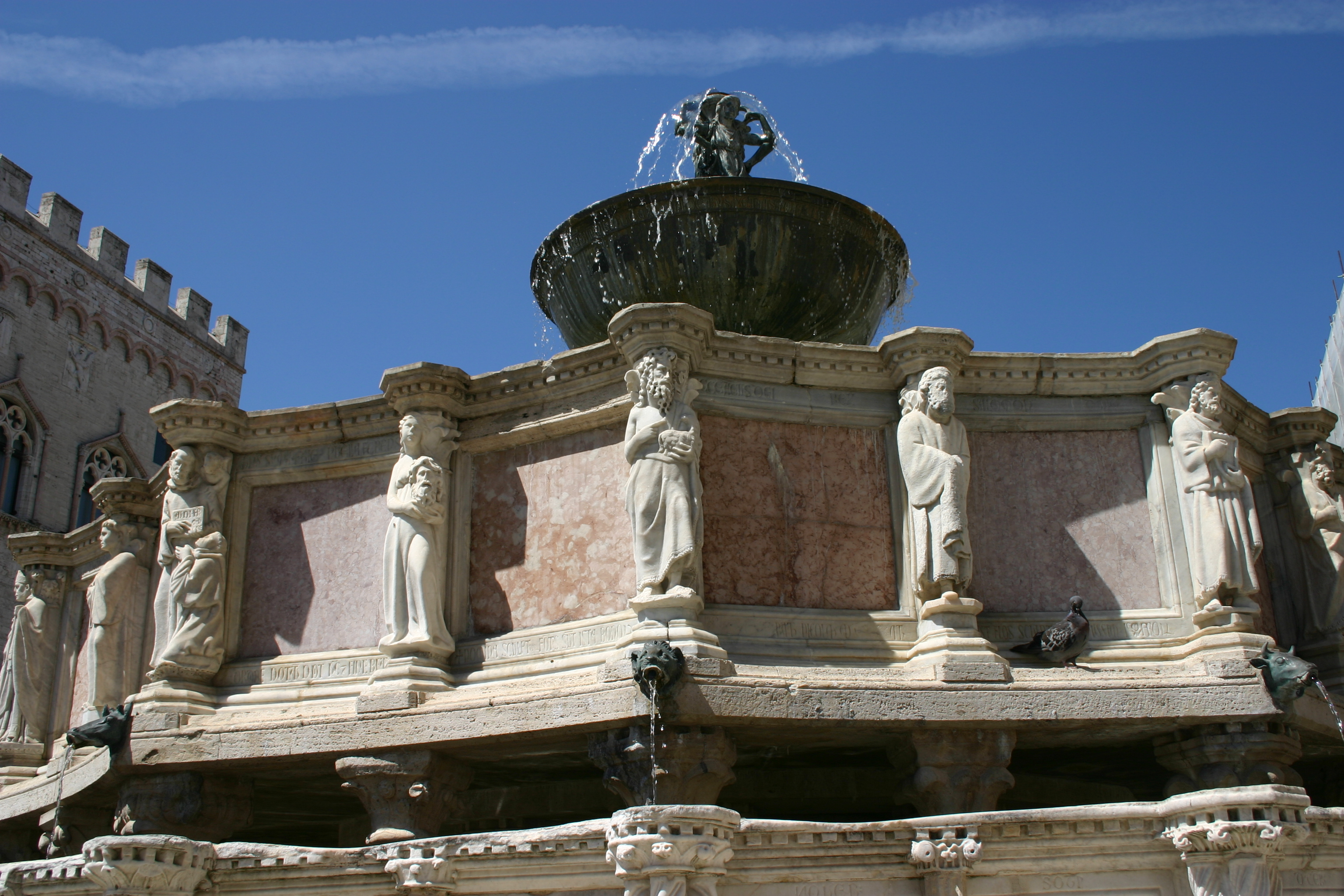 Perugia, the Fontana Maggiore (Main Fountain), sculpted after 1275 by Nicola Pisano and Giovanni Pisano. Picture by Giovanni Dall'Orto, August 6, 2006.